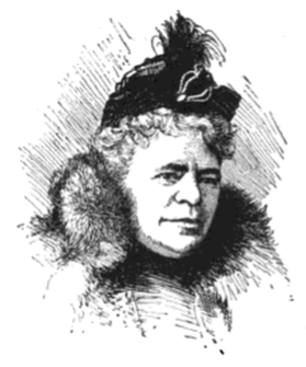 Eliza Ann Wetherby Otis